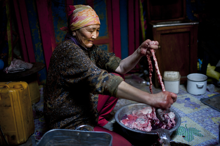 A nomad cleans the entrails of a recently slaughtered goat before cooking.